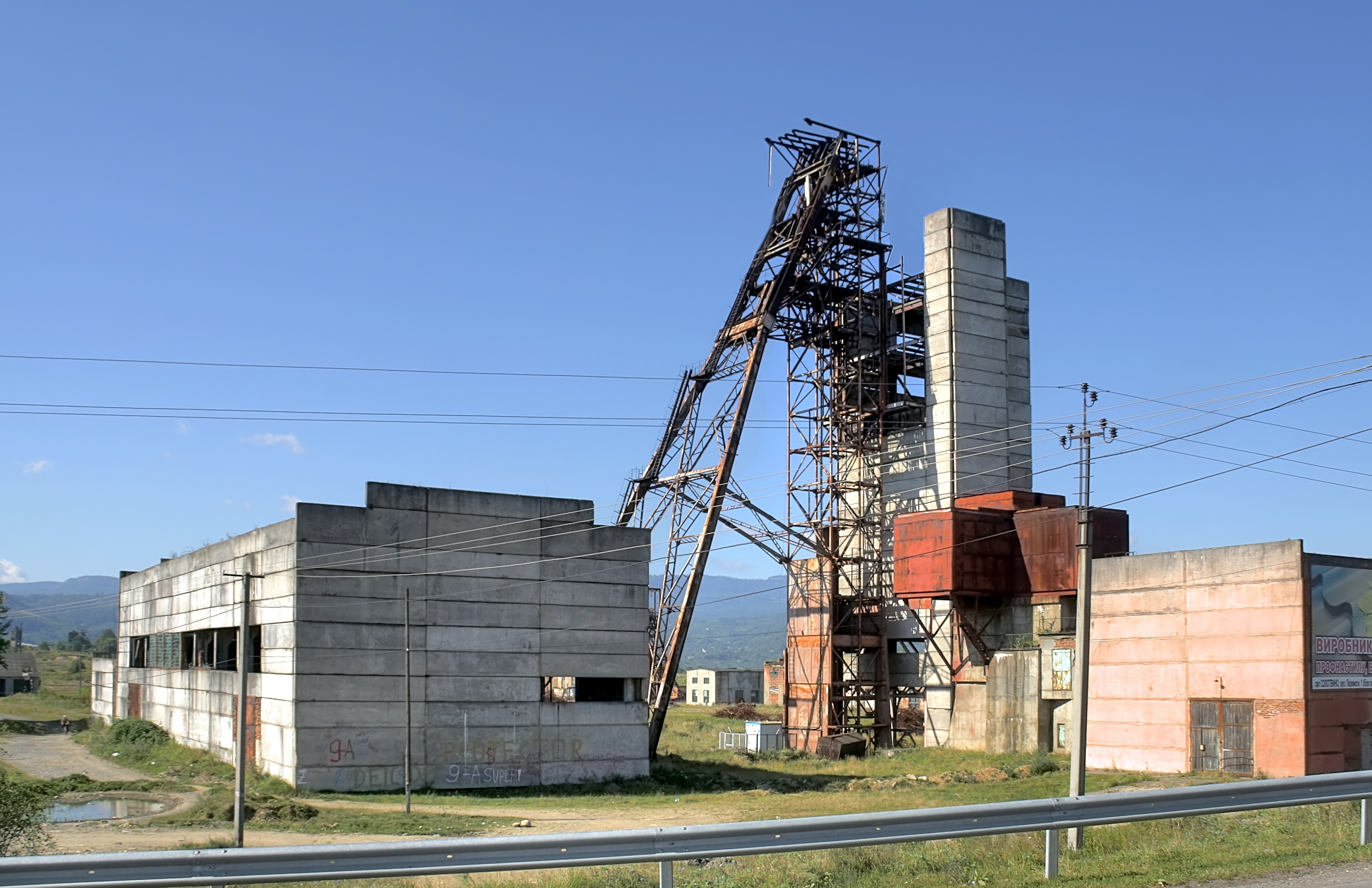 Winding tower of a salt mine in Solotvyno, Tiachiv Raion, Zakarpattia Oblast, Ukraine